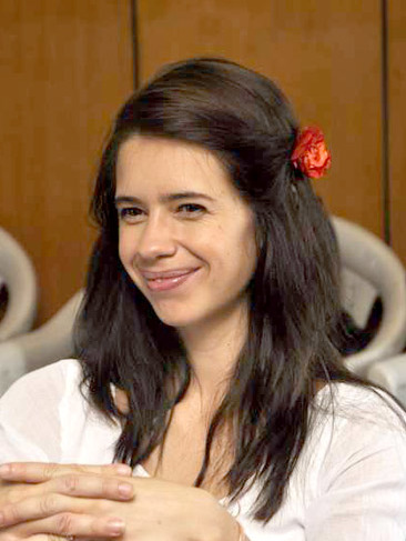 Kalki snapped at The Drama School Mumbai.